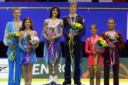 The ice dancing podium at the 2007-2008 Junior Grand Prix Final. From left: Emily Samuelson / Evan Bates (2nd), Maria Monko / Ilia Tkachenko (1st), Kristina Gorshkova / Vitali Butikov (3rd).